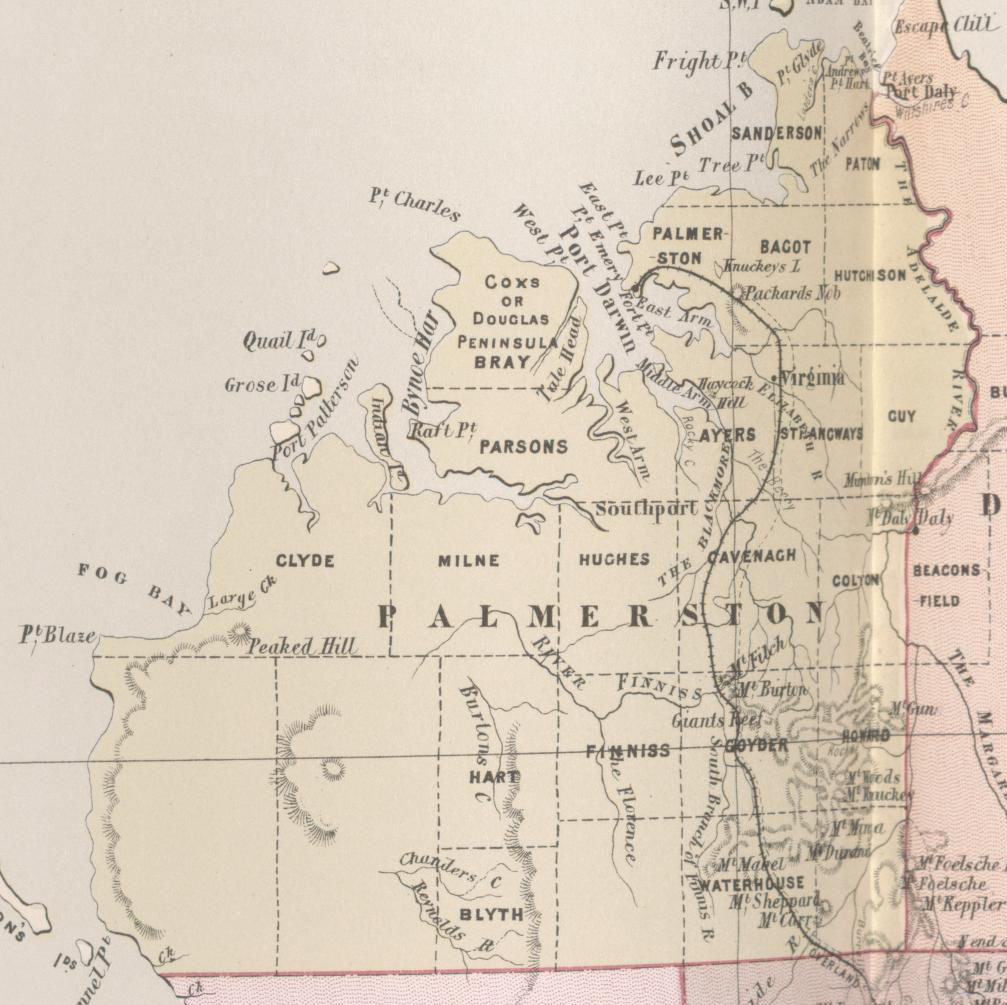 Palmerston county in the Northern Territory, containing Darwin.